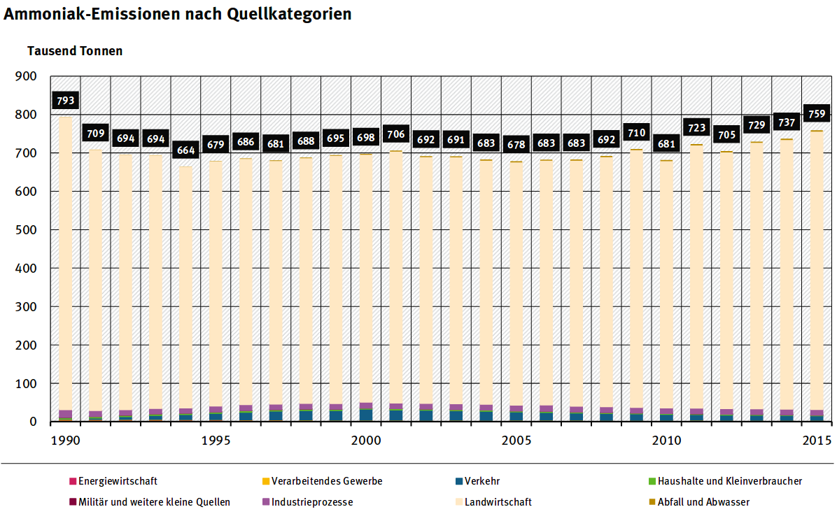 Ammonia - emissions in Germany by sources